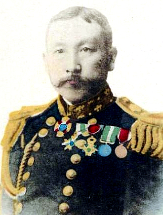 Vice Admiral Sotokichi Uryū (1857–1937)